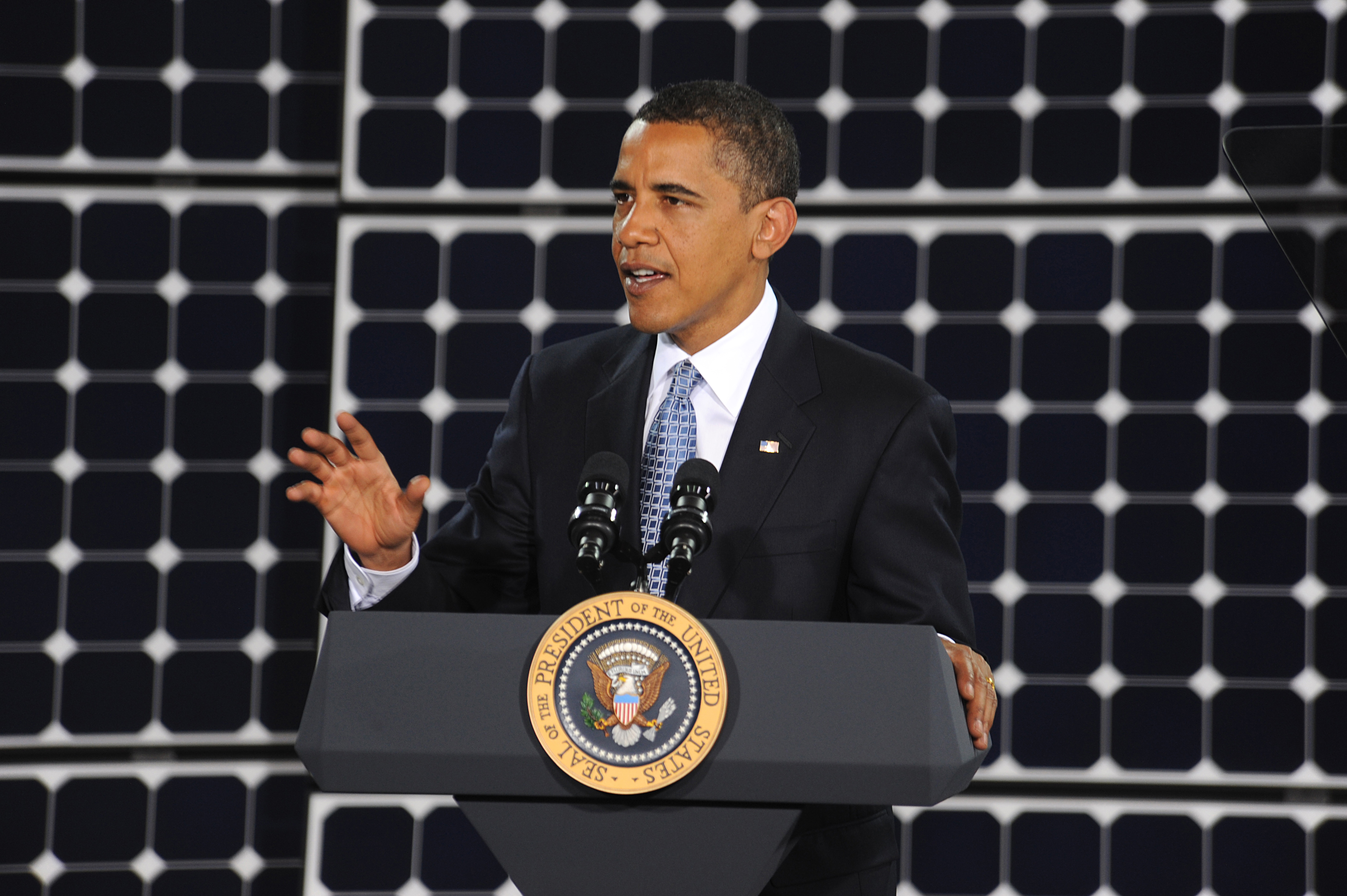 President Barack Obama addressed a crowd of more than 450 Airmen, civilians and community leaders during a visit to Nellis Air Force Base, Nev., at the Thunderbird Hangar, May 27. President Obama introduced the addition of two renewable energy programs by the American Recovery and Reinvestment Act of 2009 (Recovery Act) after a visit of Nellis' photovoltaic array. The PVA is the largest in the Western Hemisphere and supplies 25 percent of the base's enegy. The Recovery Act was signed Feb. 17 and included provisions that would stimulate and strengthen this nation's economic standing.